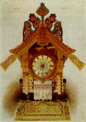 A clock in the form of the hut of Baba-Yaga, design study by Viktor Hartmann